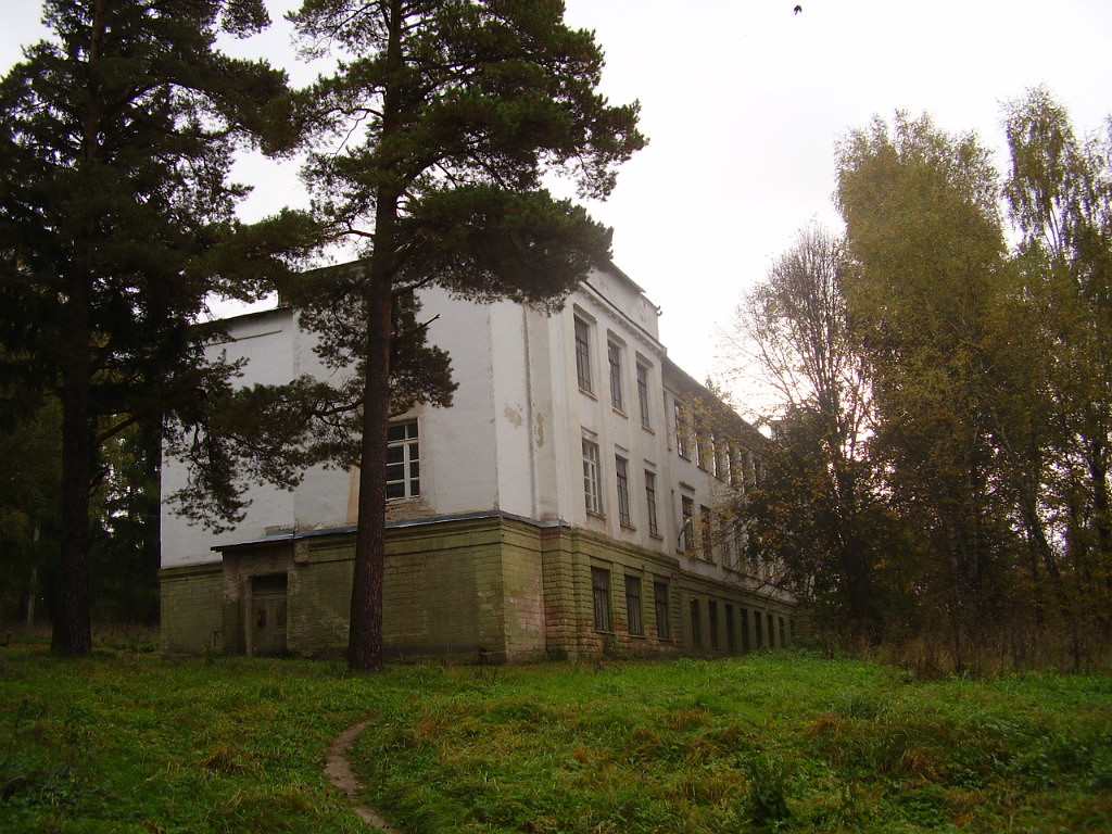 Building of the Nursery school in Mezerscoe